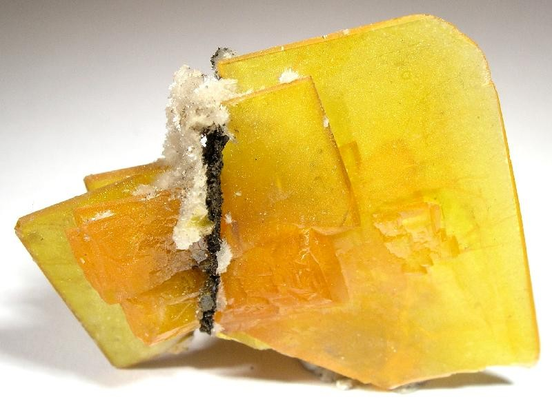 Wulfenite Locality: King of Arizona Mine (King of Arizona property; King of Arizona group of claims; King of Arizona vein; Kofa Mine; Gleason Mine; Homestake claim), Kofa Game Range, Kofa District, Kofa Mts (S.H. Mts), Yuma County, Arizona, USA (Locality at ) Gorgeous cluster of lustrous orange-yellow Wulfies, all growing out from a central sliver of matrix. The largest crystal has two pieces broken off near the base, but it is deceptively inconsequential because of the overall aesthetics and visual impact of the specimen above. 2.7 x 2.4 x .7 cm